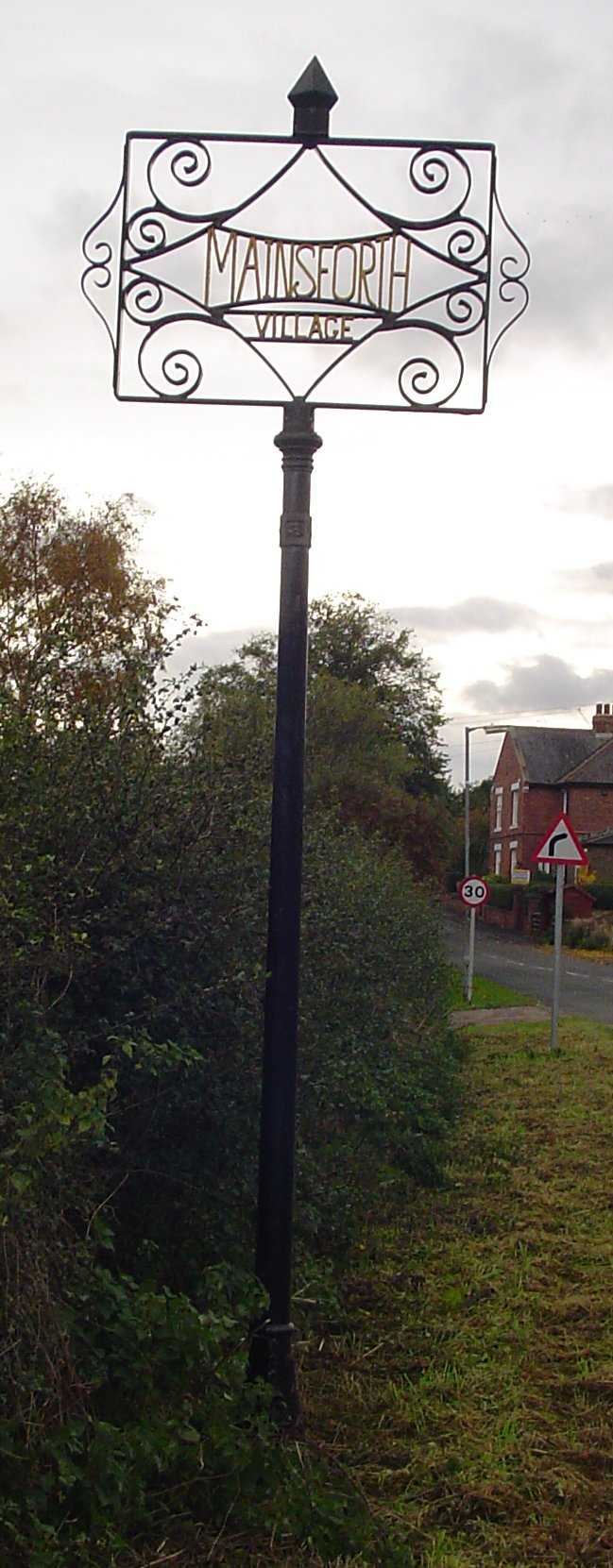 Signpost in Mainsforth